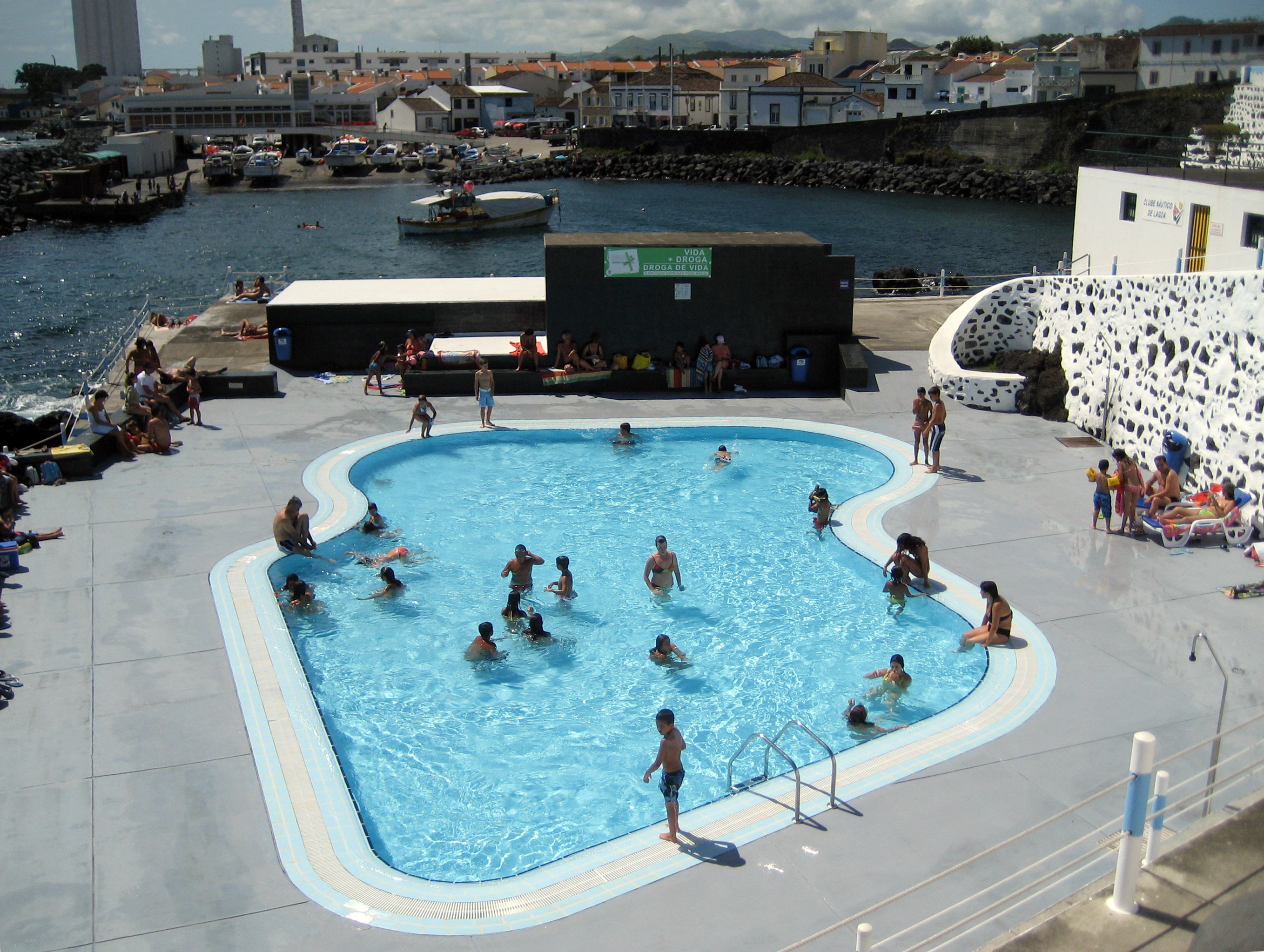 Lagoa, Sao Miguel, swimming pool